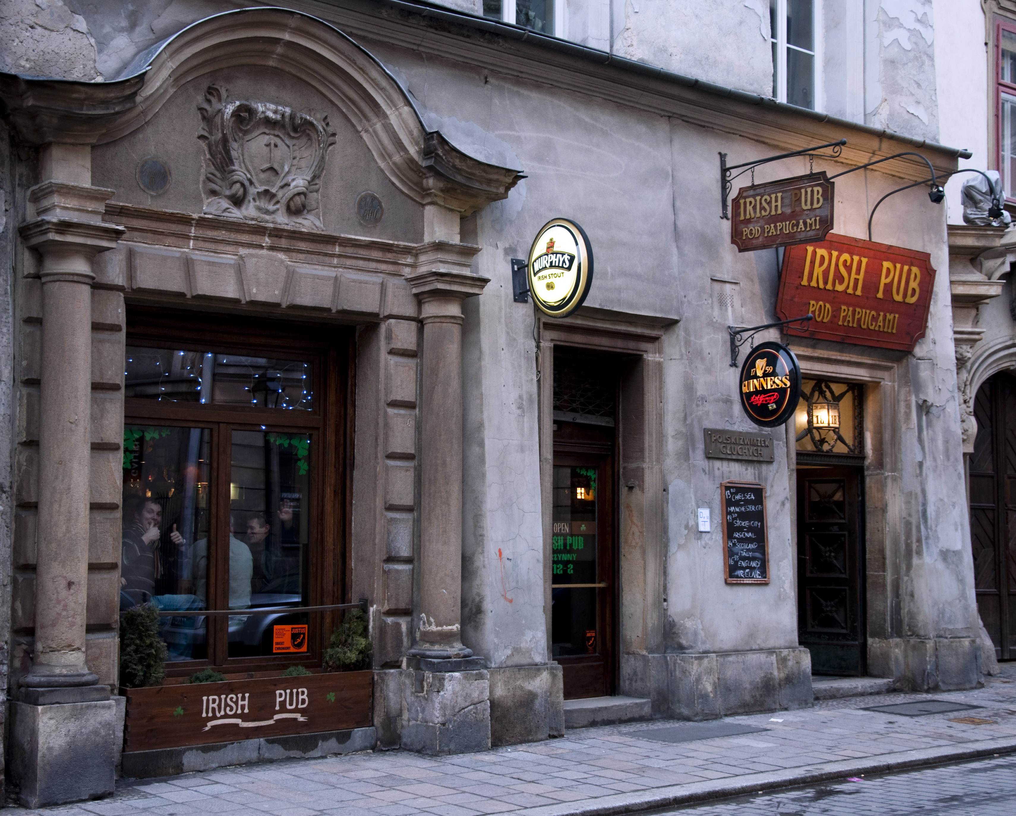 Irish Pub "Pod Papugami", Kraków, Poland